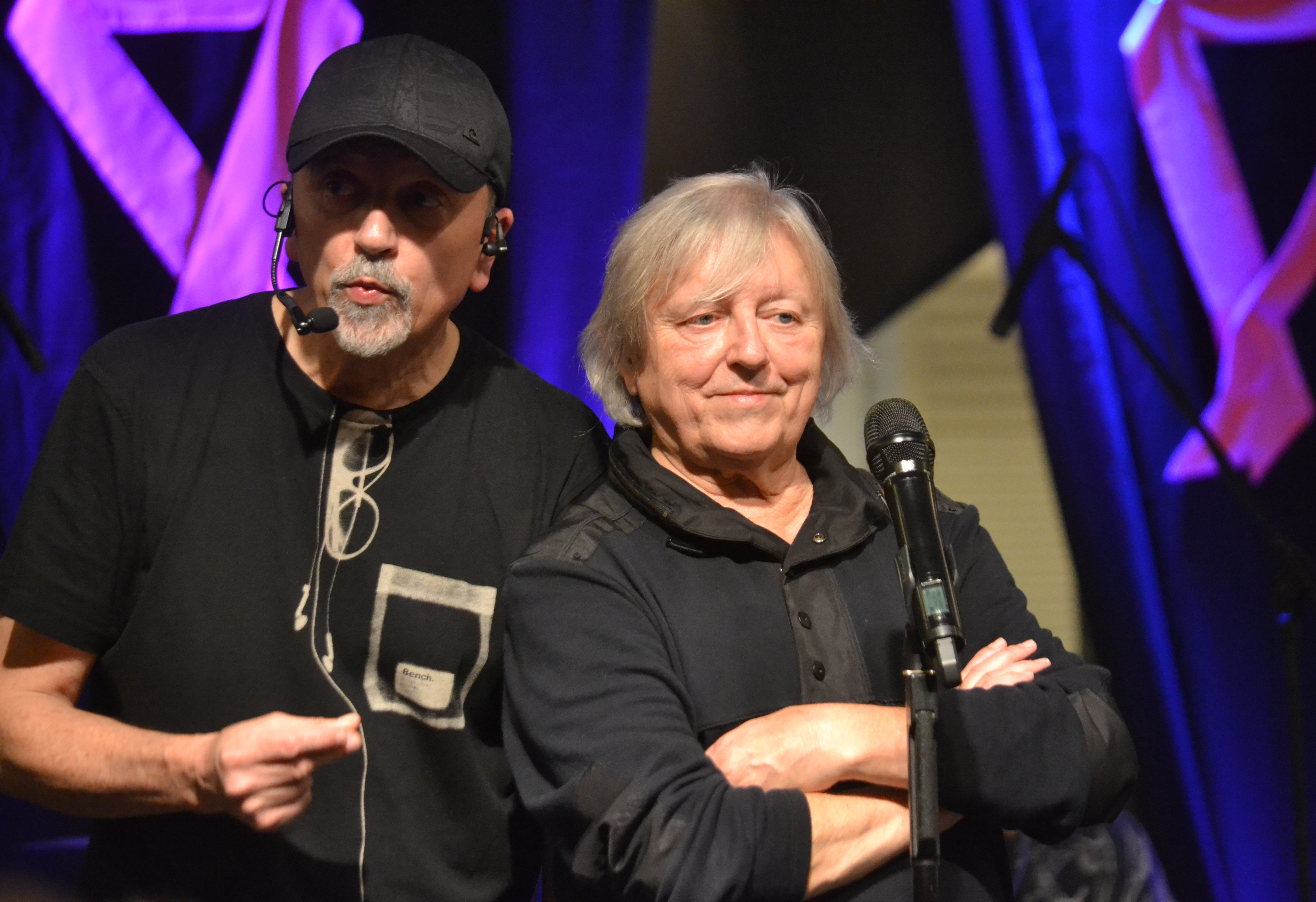 from left: Jan Neckář, Czech musician, Václav Neckář, Czech vocalist